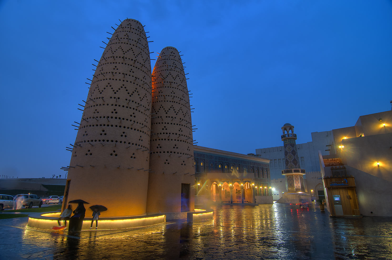 Traditional buildings at the Katara Cultural Village in Doha, Qatar at night in 2013.